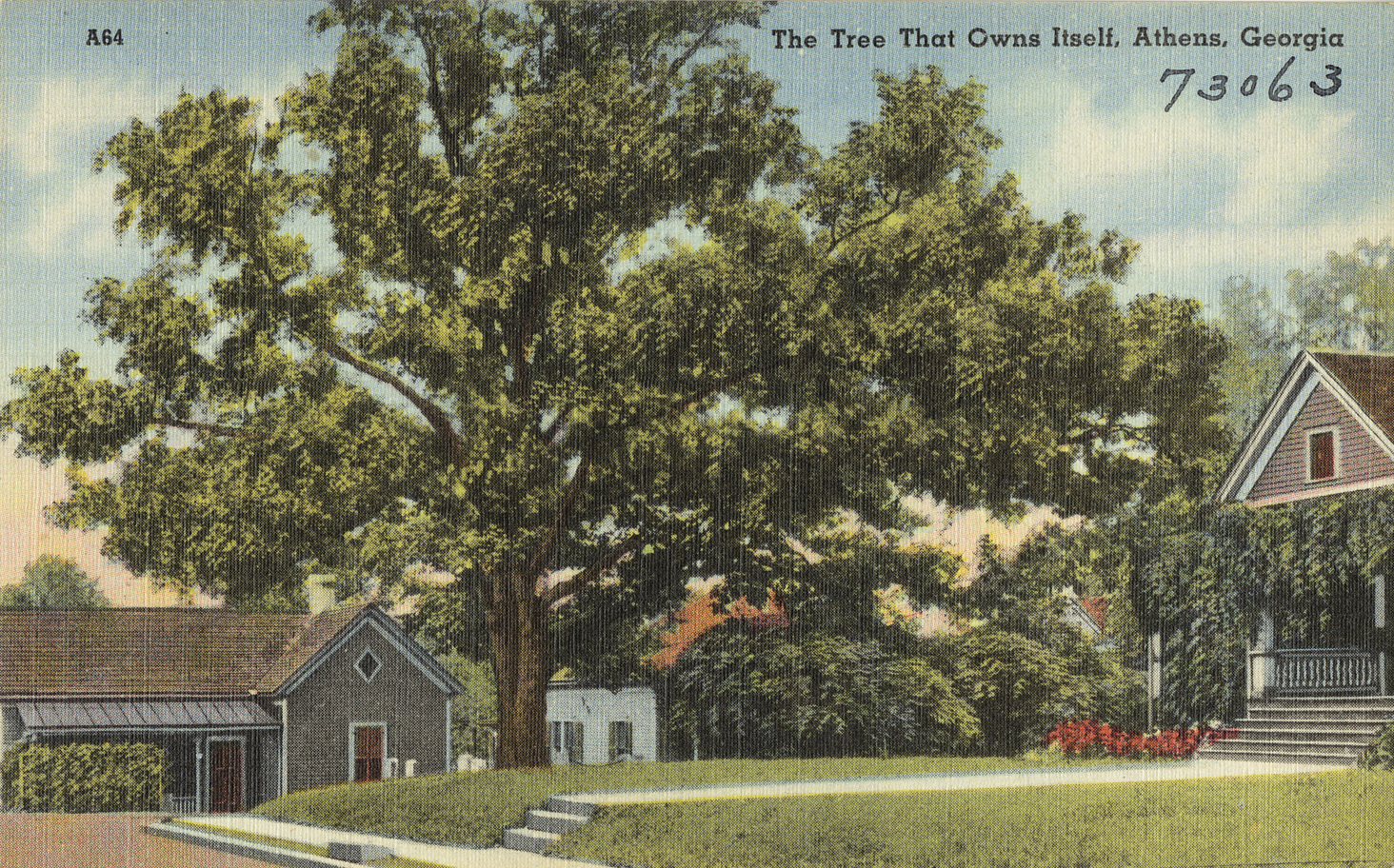 File name: 06_10_013847 Title: The tree that owns itself, Athens, Georgia Date issued: 1930 - 1945 (approximate) Physical description: 1 print (postcard) : linen texture, color ; 3 1/2 x 5 1/2 in. Genre: Postcards Subject: Houses Notes: Title from item. Collection: The Tichnor Brothers Collection Location: Boston Public Library, Print Department Rights: No known restrictions